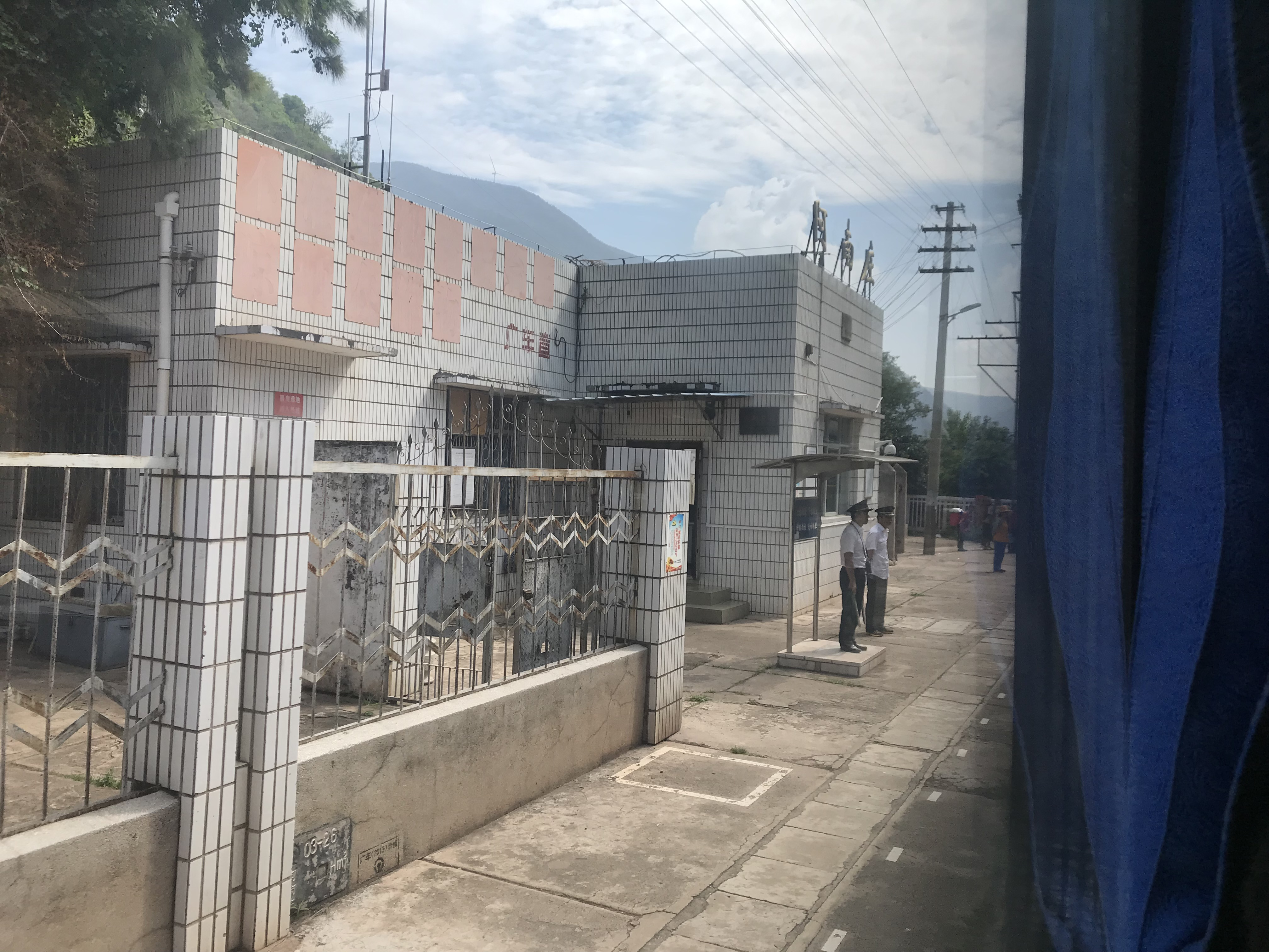 201908 Station Building of Ananzhuang